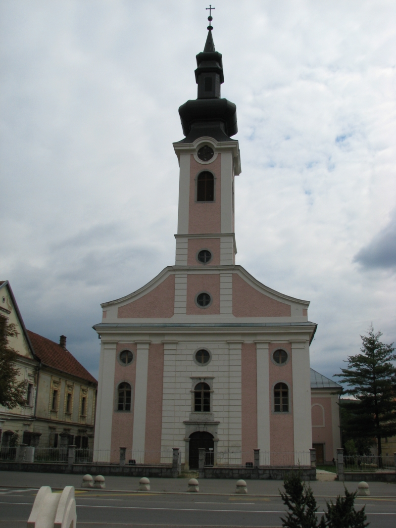 Holy Trinity church, Otočac